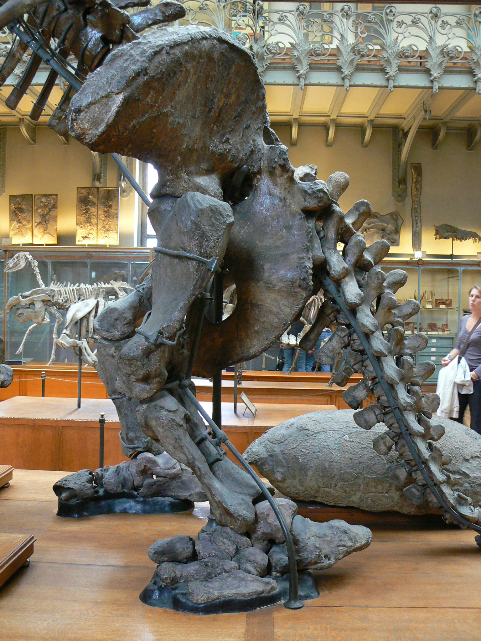 megatherium americanum